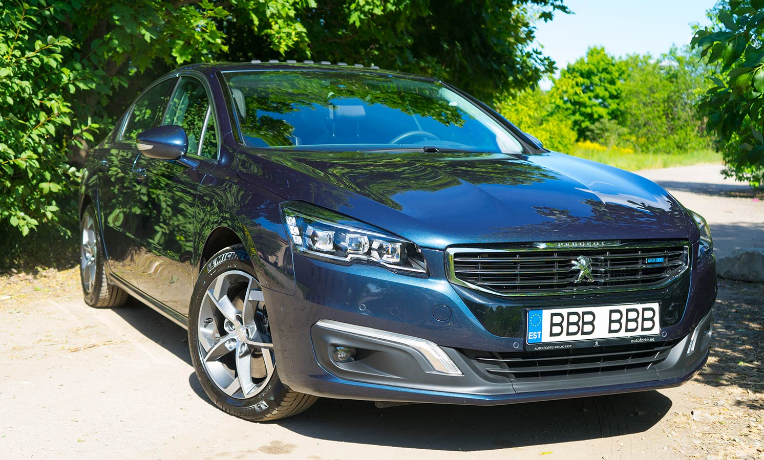 2016 Peugeot 508 Sedan in Bourrasque Blue with Blue HDi system 中文（中国大陆）: 2016年标致508